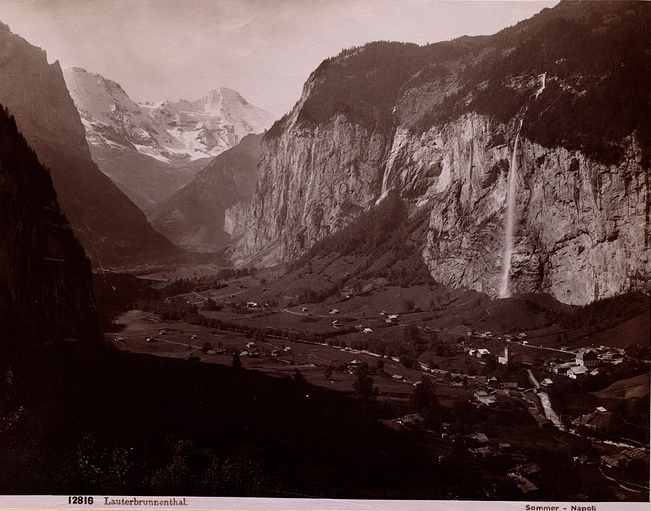 Giorgio Sommer (1834-1914) - "Lauterbrunnen Valley". Catalogue # 12816.